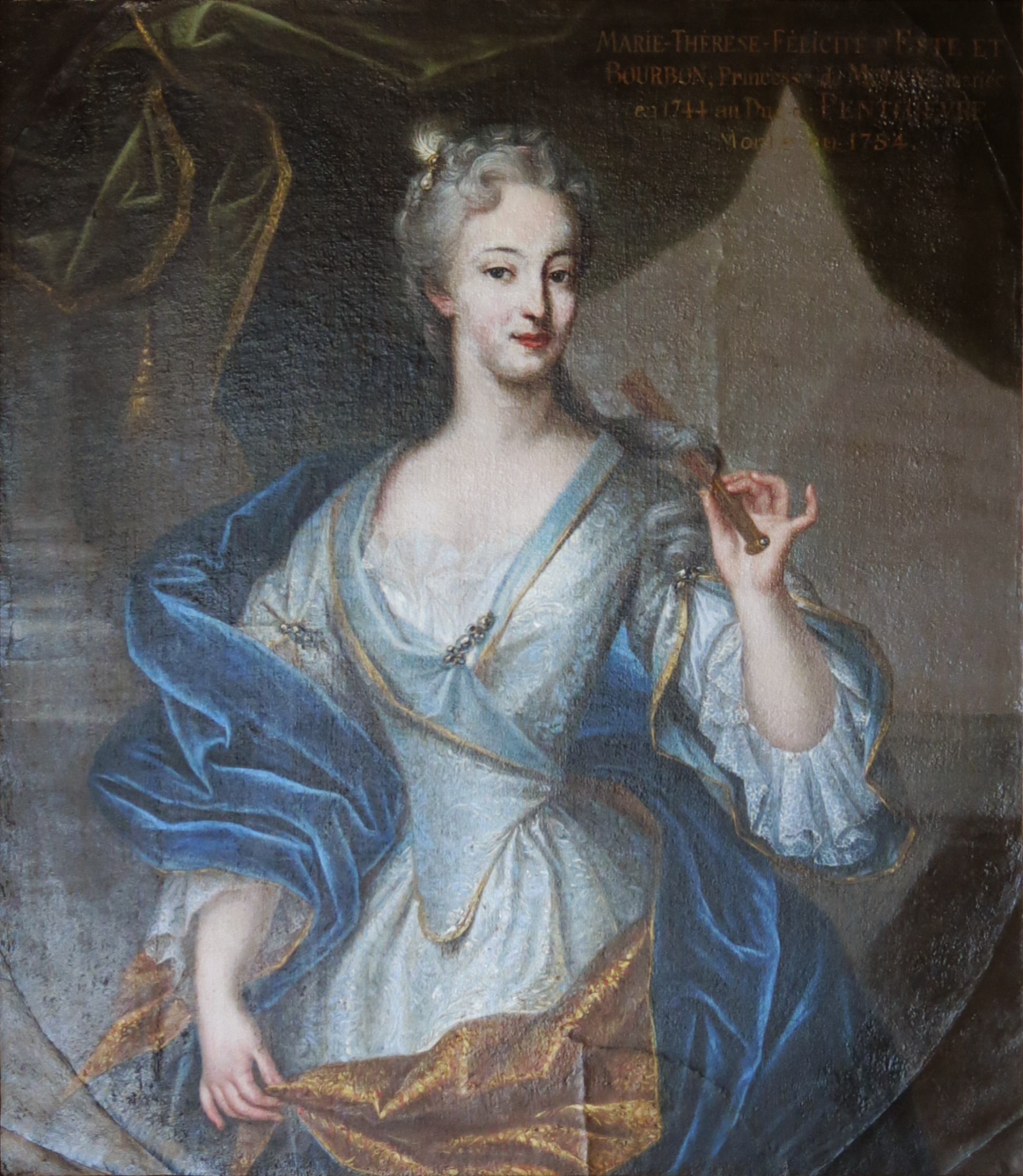 Maria Teresa Felicitas d'Este (1726-1754), Princess of Modena and future Duchess of Penthièvre